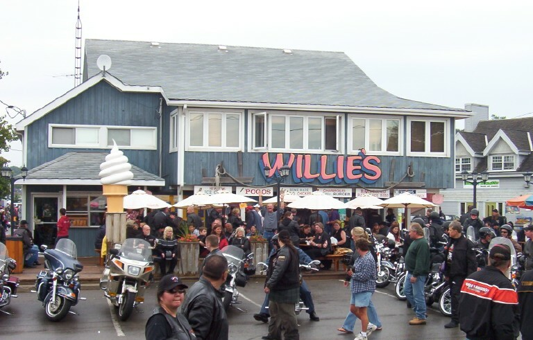 Outside Willie's Restaurant on Friday 13 October, 2004 Taken by Mary McGrath-Coppens